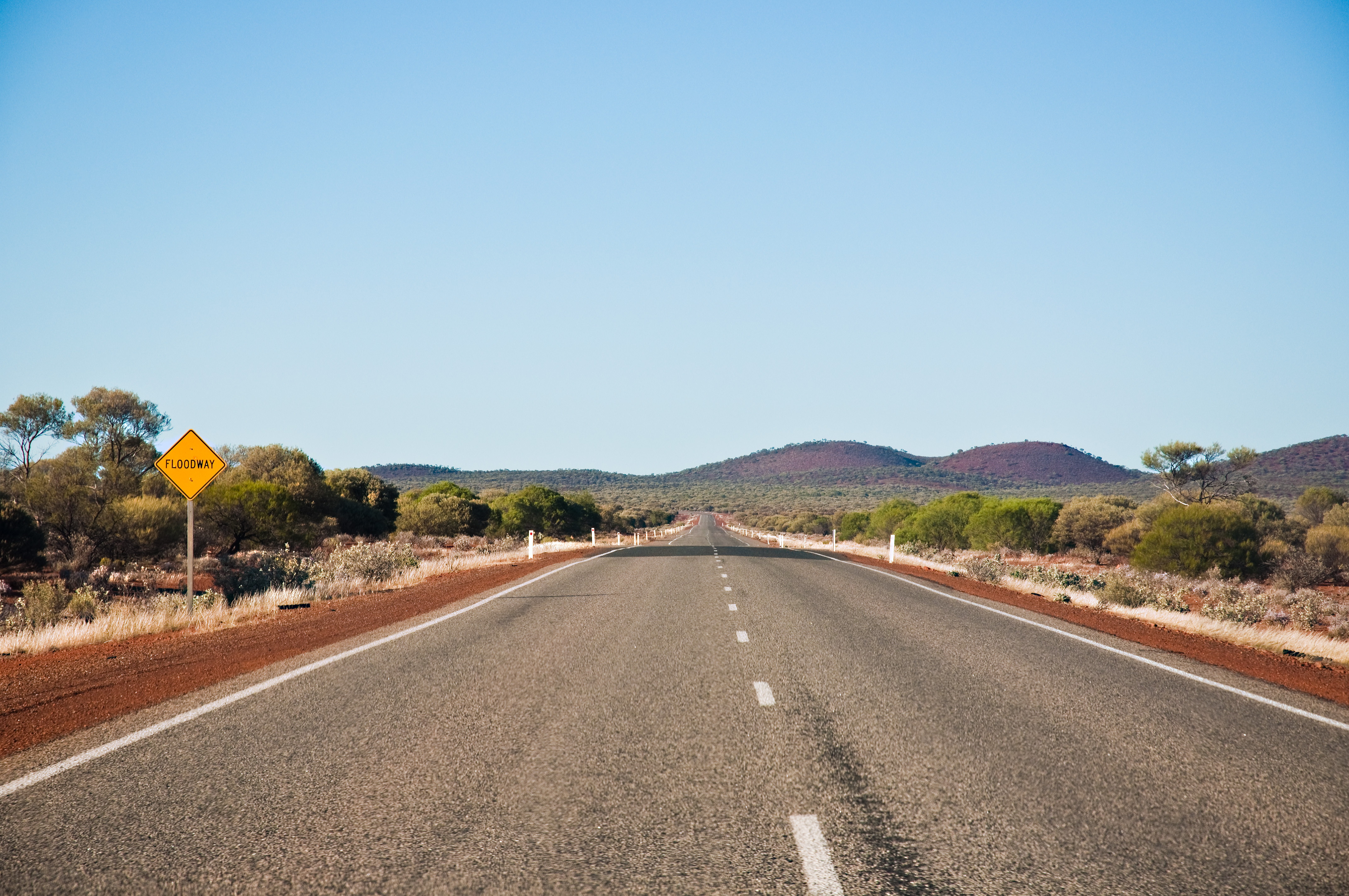 Gone Driveabout 25, Great Northern Highway near Payne's Find, Western Australia, 25 Oct. 2010